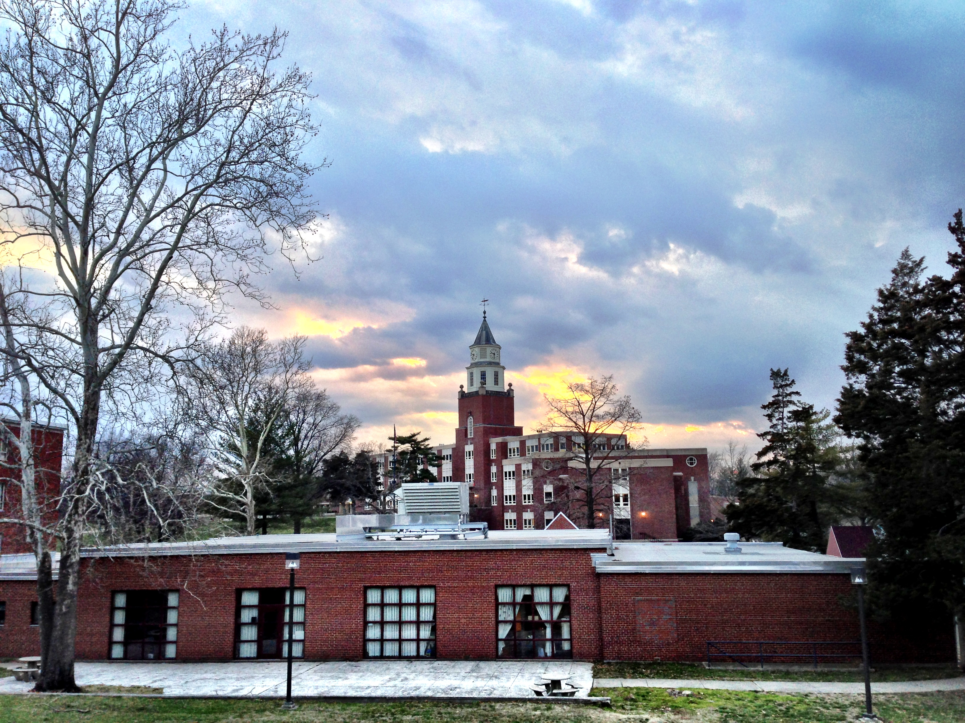 SIU Pulliam Hall during sunset